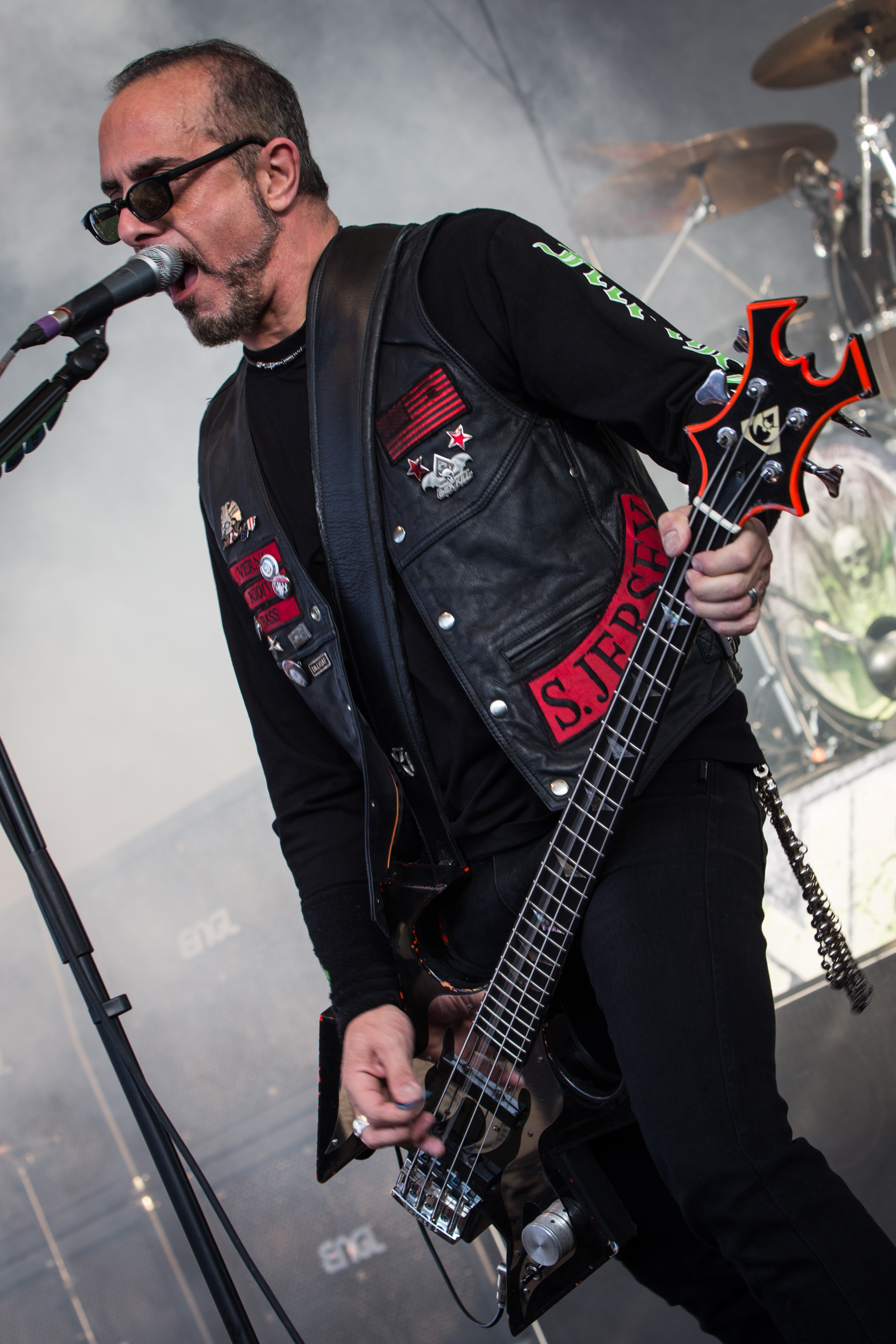 Overkill performing live at Rock Hard Festival, May 2015, Gelsenkirchen